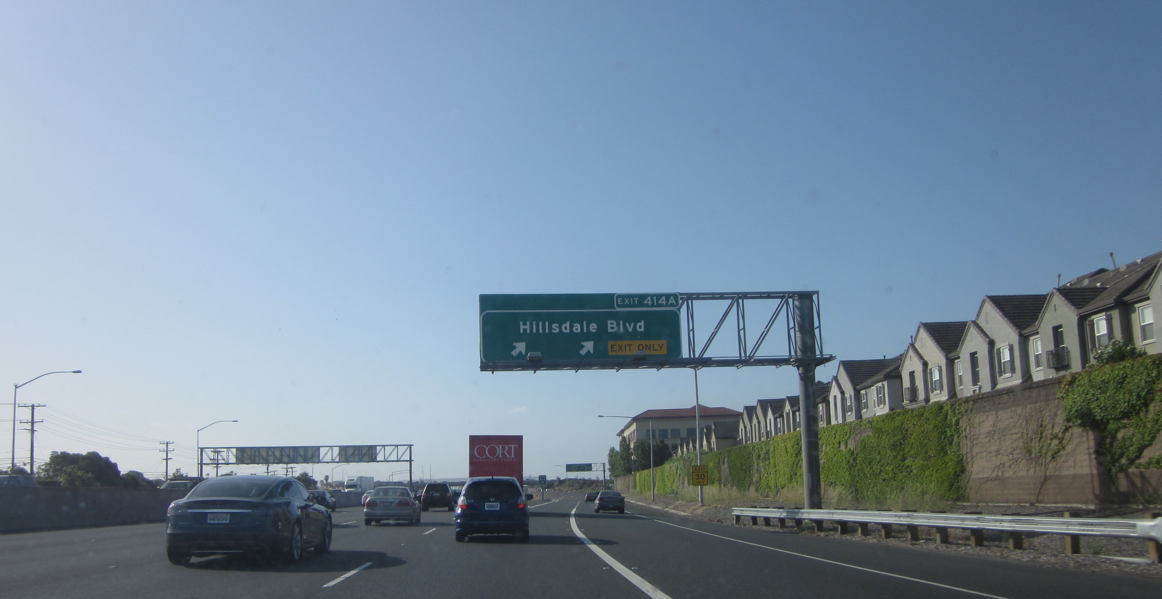 2014 view of the Bayshore Freeway southbound at Hillsdale Boulevard